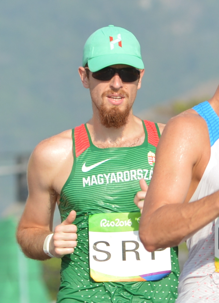 Miklós Srp race walks 50 kilometers at Rio Olympic Games